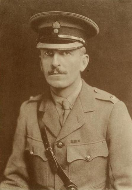 Lord Ian Basil Gawaine Temple Hamilton-Temple-Blackwood, Lieutenant, Grenadier Guards, 1916.